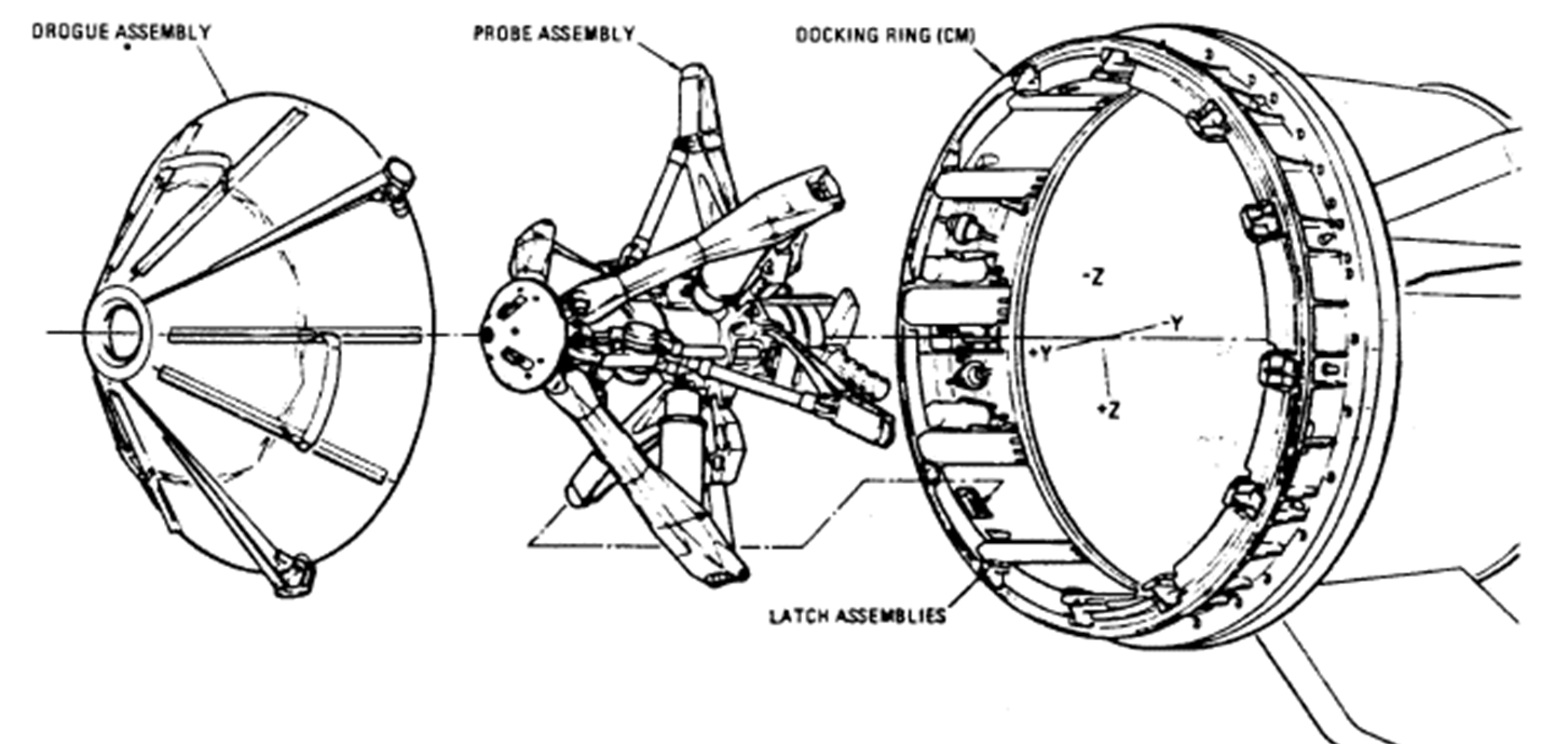 U.S. Probe and Drogue: Apollo:(1969 - 1972)